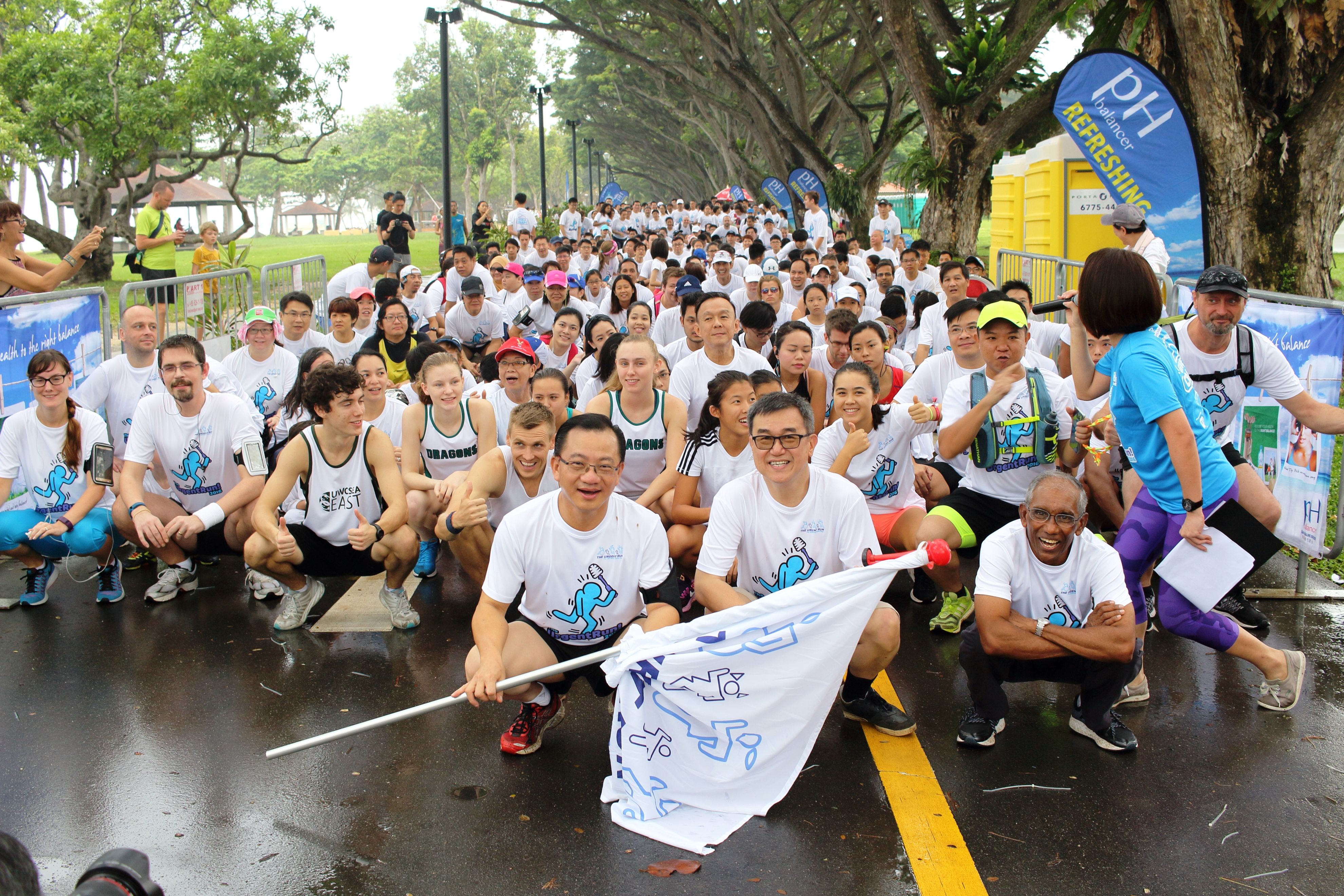 The Urgent Run in Singapore. Doing the Big Squat to show solidarity with the billions of people who still have no access to toilets